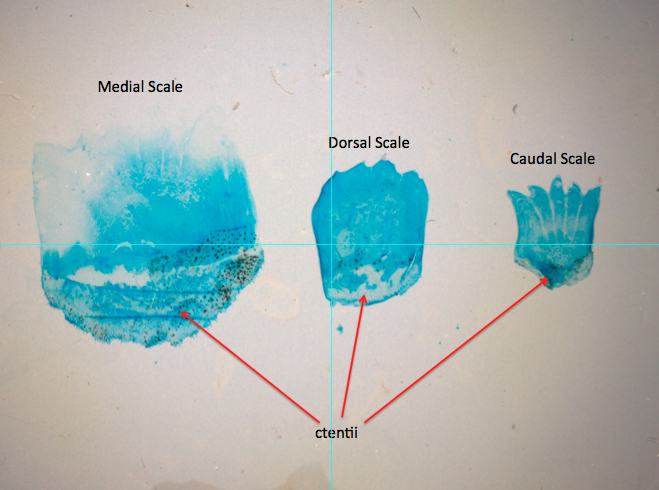 Three scales were taken from various locations from a perch and stained. The medial scale was taken from the middle of the fish, the dorsal scale was taken from the top of the fish, and the caudal scale was taken from the end of the fish, towards the caudal fin. The ctentii in each of the three scales is labeled.